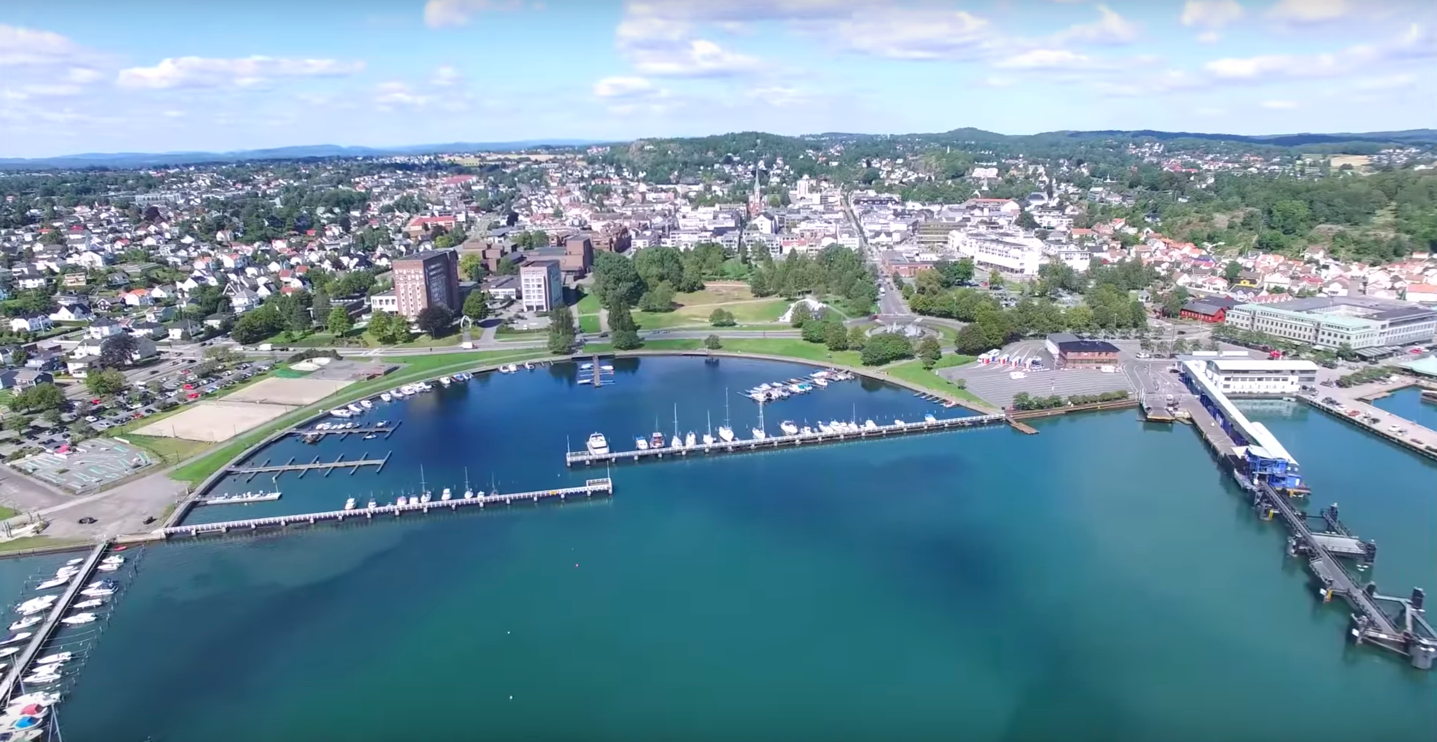 Drone photo of Sandefjord City, 2016.